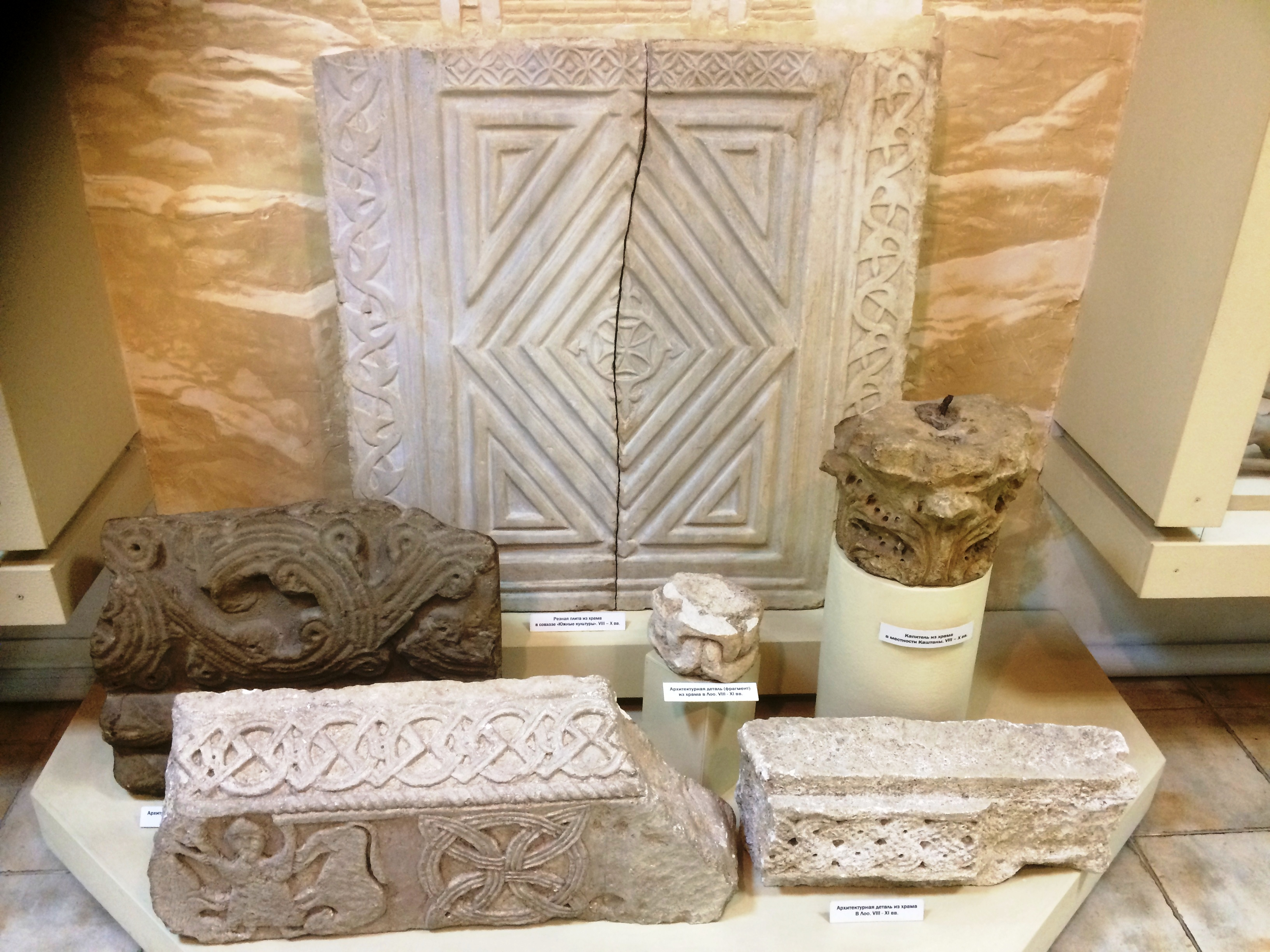 Architectural details of their temples of the 8-11th centuries in the territory of the city of Sochi, Krasnodar Krai, Russian Federation